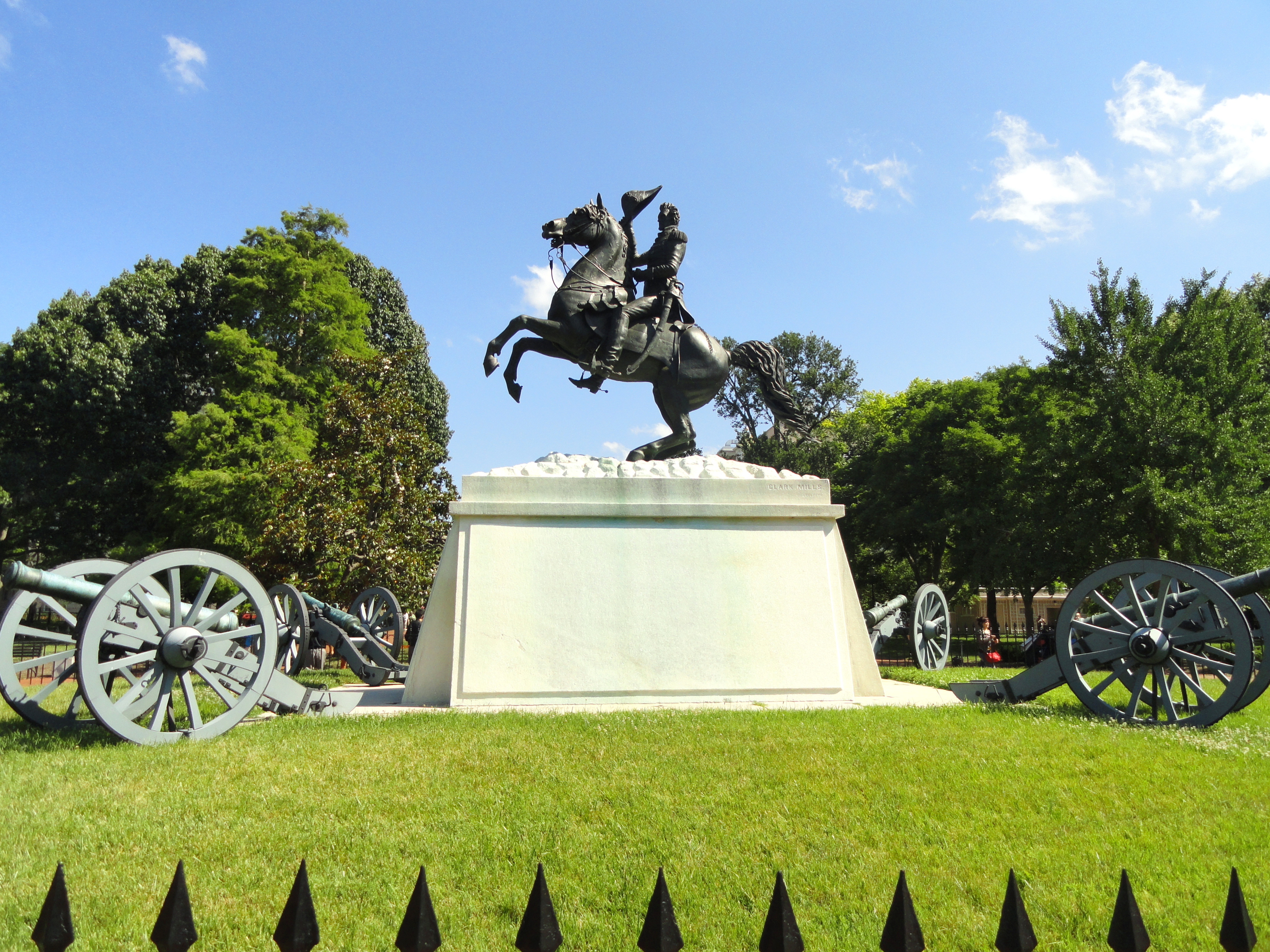 Andrew Jackson memorial, Lafayette Park, Washington, D.C., USA. Sculptor: Clark Mills (1810–1883). This artwork is now in the public domain because the artist died more than 70 years ago.